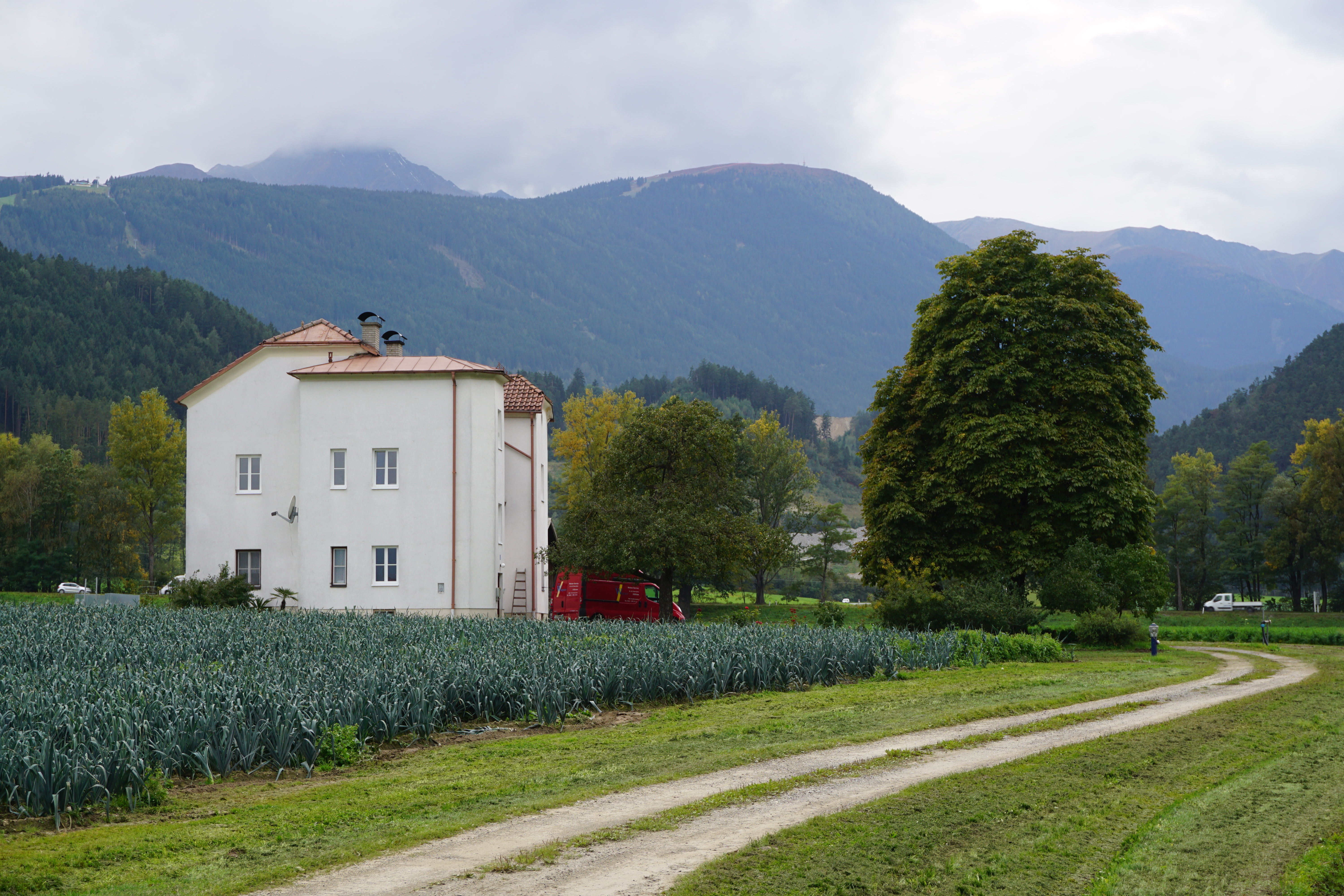 This media shows the remarkable cultural object in the Austrian state of Tyrol listed by the Tyrolean Art Cadastre with the ID 67959. (on tirisMaps, pdf, more images on Commons, Wikidata)